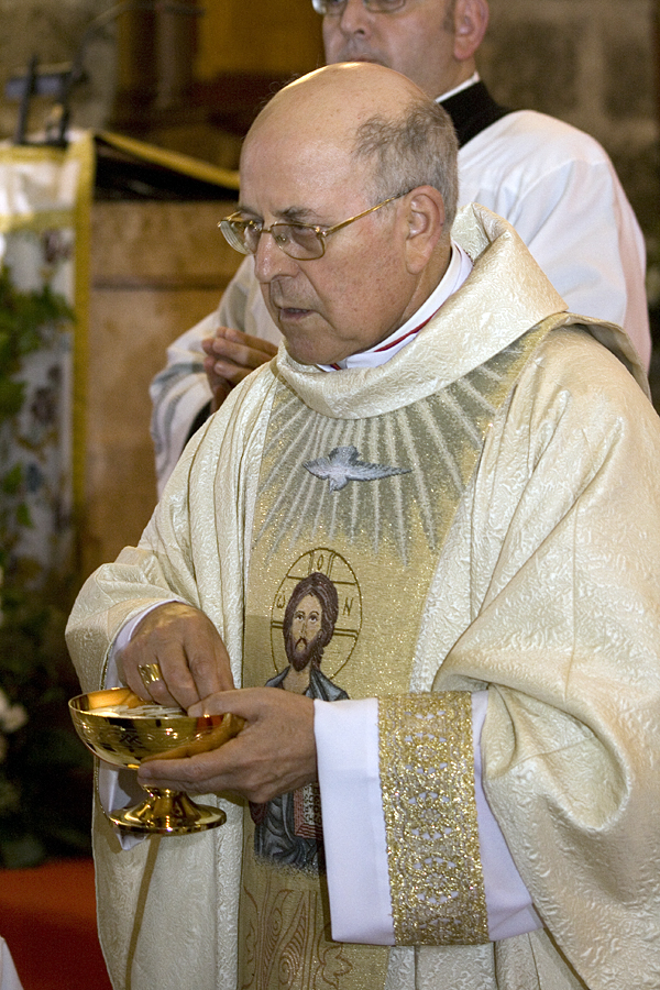 Ricardo Blázquez in his assumption as archbishop of Valladolid (Spain)